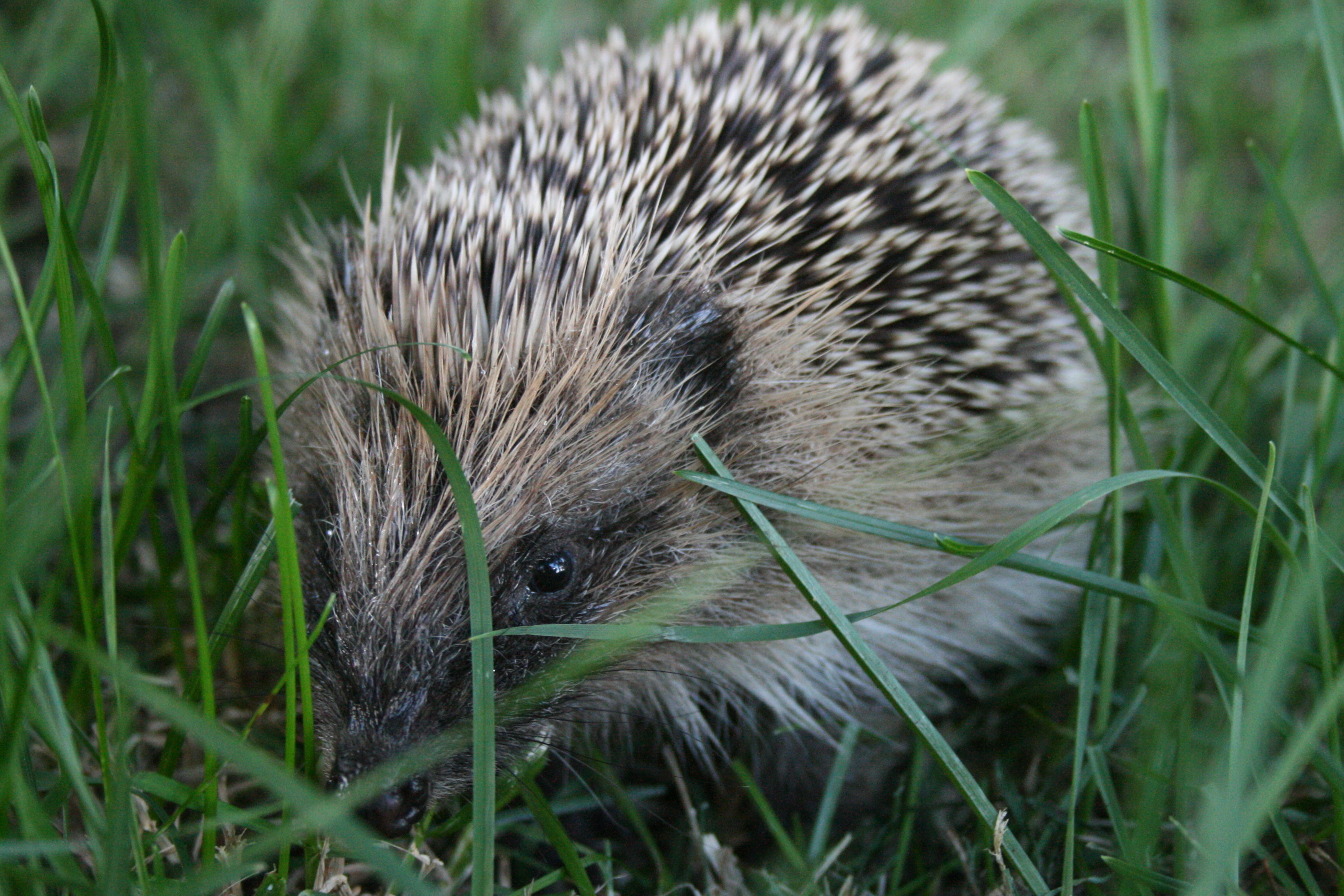 Erinaceus europaeus New Zealand Hedgehog